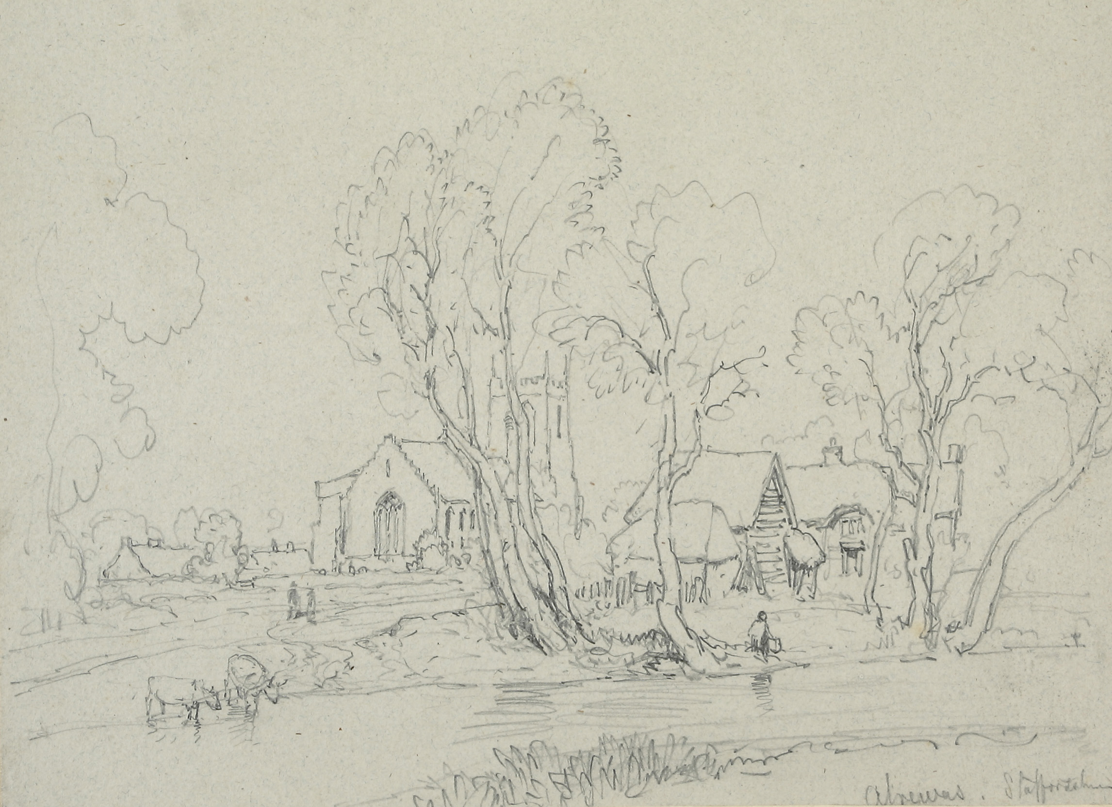 From the Lines family sketchbook, in the collection of the Royal Birmingham Society of Artists, Birmingham, England. See Rediscovering the Lines Family - Exhibition catalogue - 2009 Andy Mabbett, User:Pigsonthewing, is in the process of identifying and categorising these images (assistance welcome). This paragraph will be removed once that's done for this image.